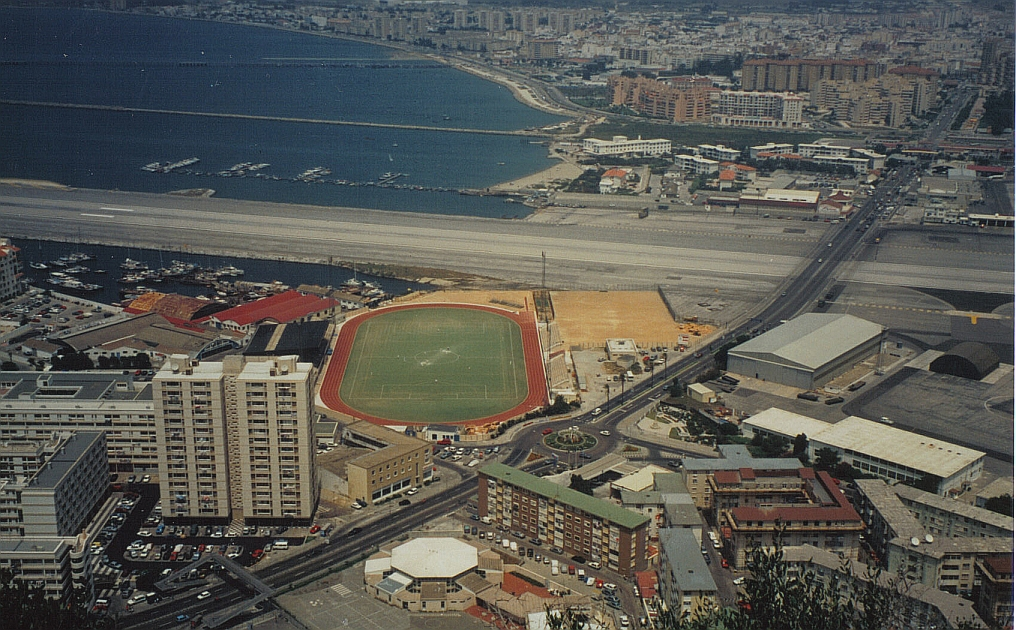 Gibraltar. Area of airfield and border